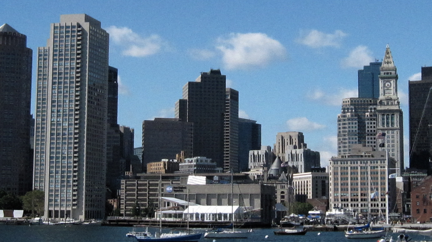 Harbor Towers, Boston